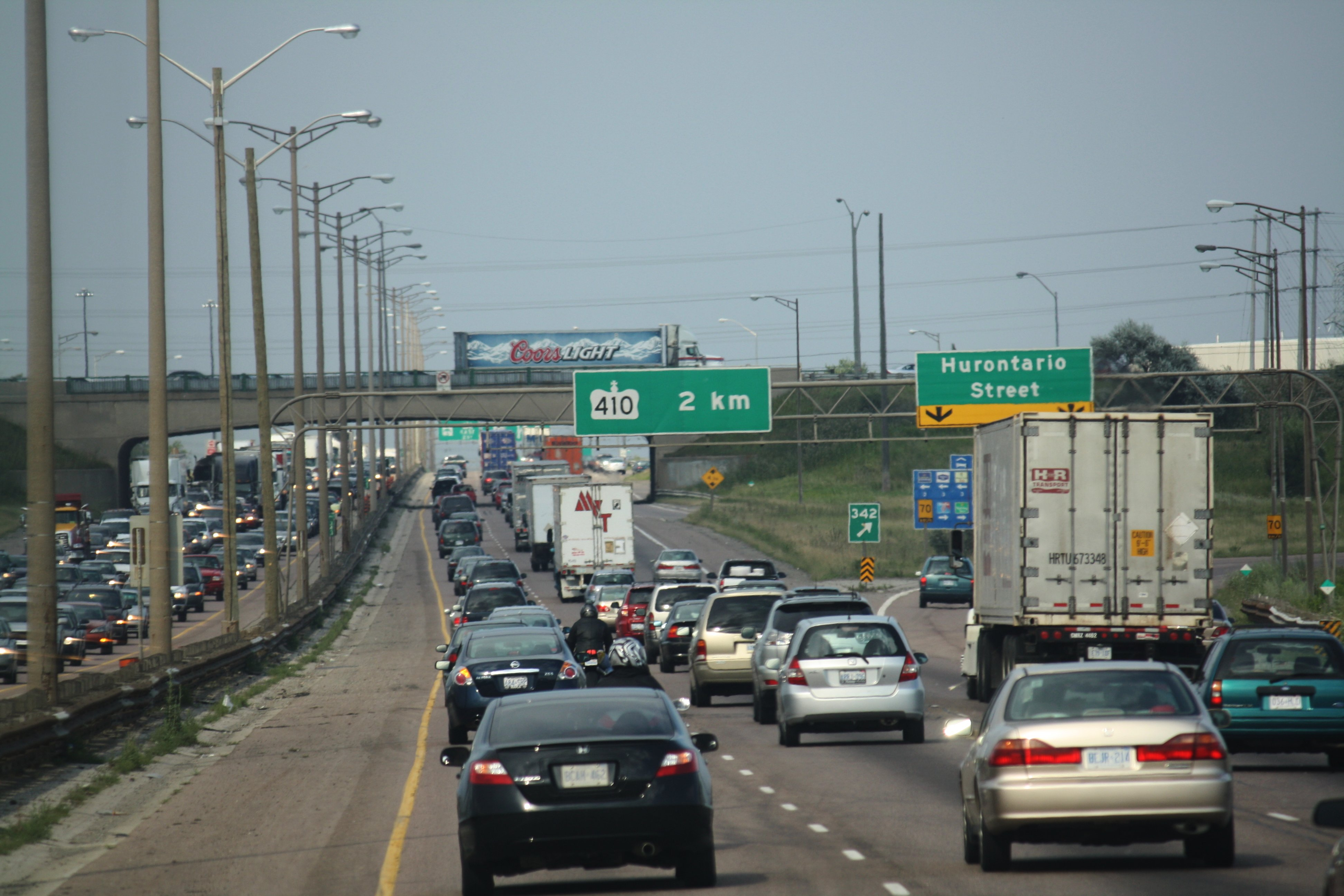 Heavy traffic on Highway 401 at Hurontario Street, looking east. This area is currently being widened from 6 lanes to a 12 lane collector-express system in order to reduce traffic congestion.